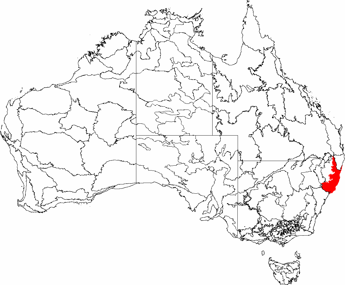 This is a map of the Interim Biogeographic Regionalisation of Australia (IBRA), with state boundaries overlaid. The NSW North Coast region is shown in red.